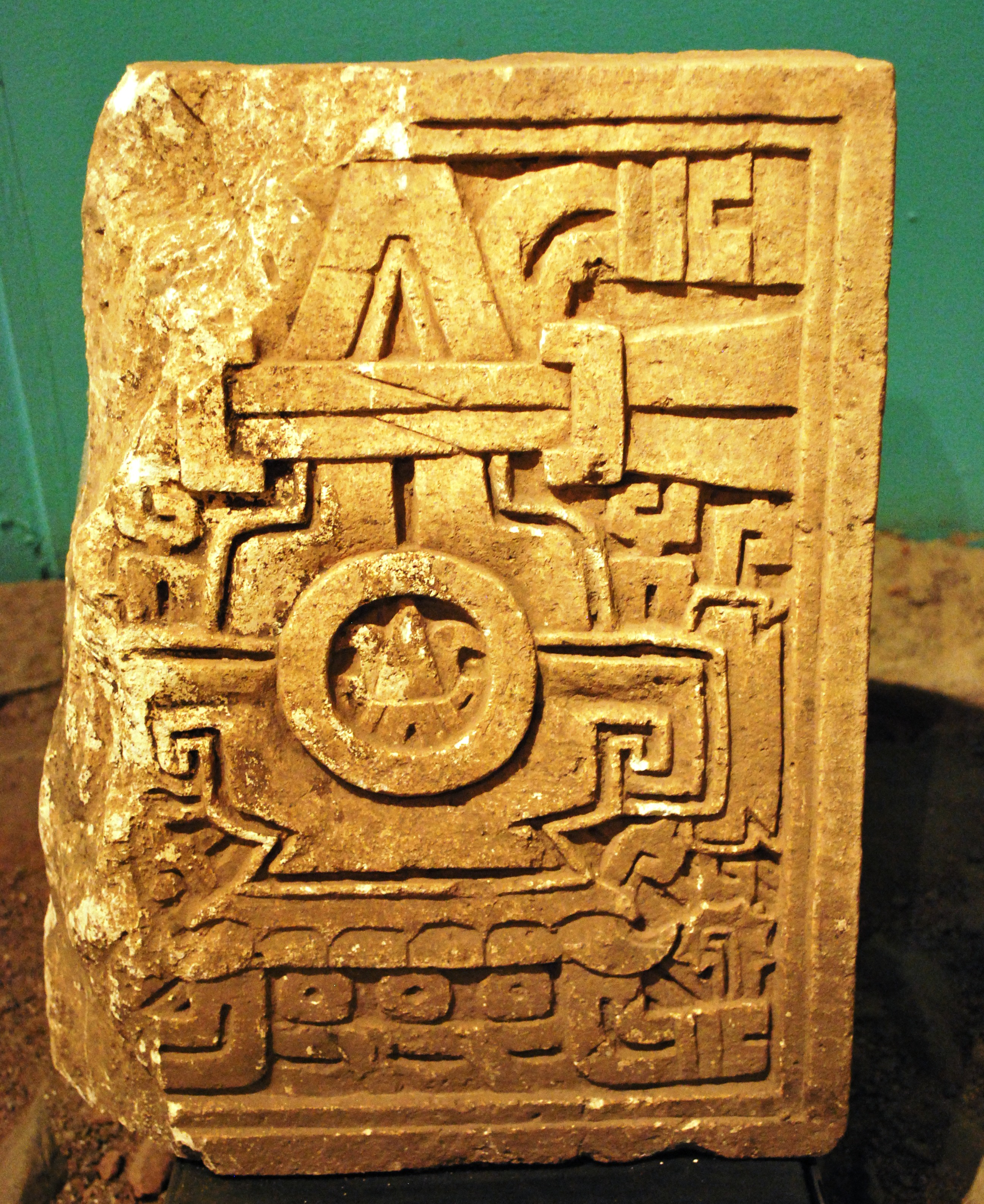 One of the gravestones found in Tomb 5 of the Cerro de las Minas archeological site. On display at the Regional Museum of Huajuapan in Huajuapan, Oaxaca